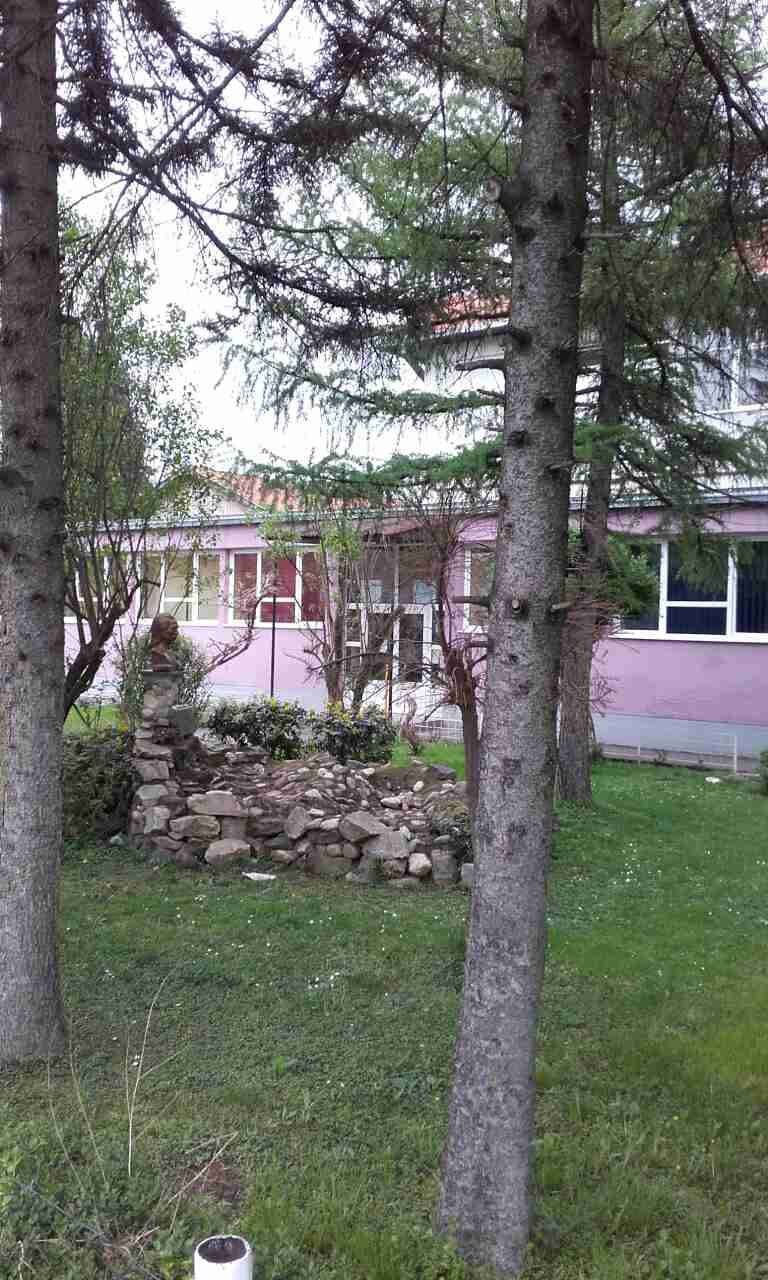 Elementary school ,,Branko Radičević" in Kruševac Српски (ћирилица): Основна школа ,,Бранко Радичевић" у Крушевцу